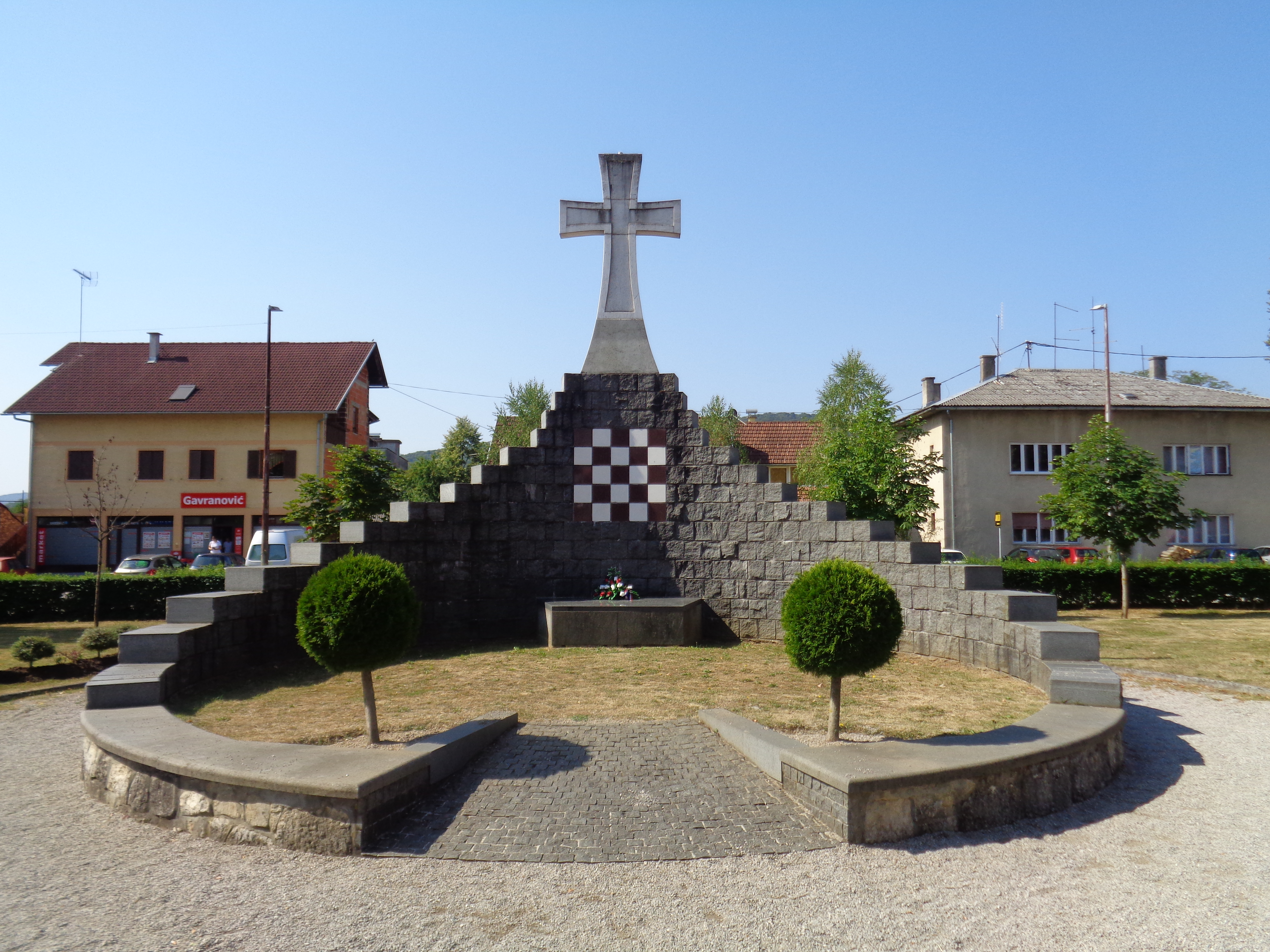 Slunj, Karlovac County, Croatia - Franjo Tudjman Ph.D. Square, Memorial to fallen Croatian defenders and civil victims in the Croatian War of Independence